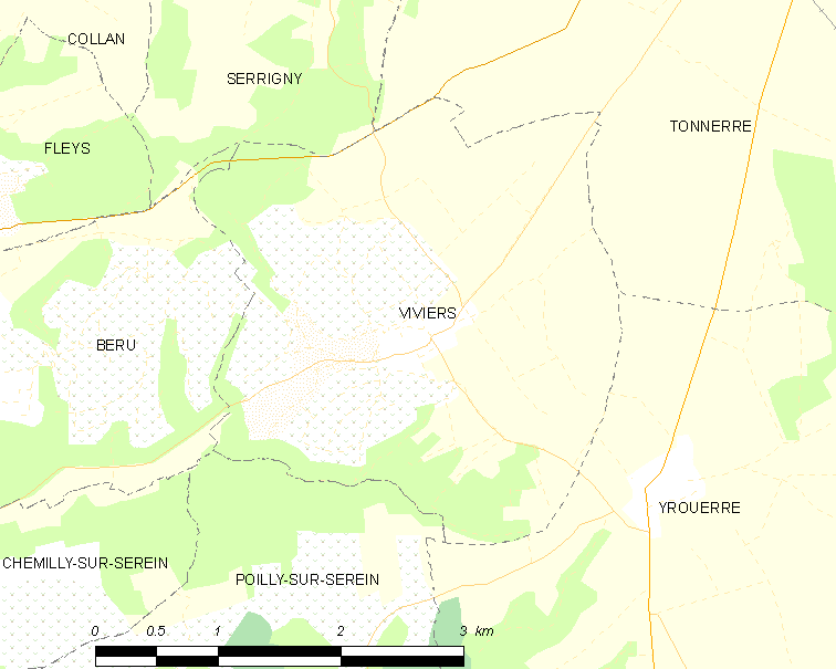 Map of French municipality Viviers